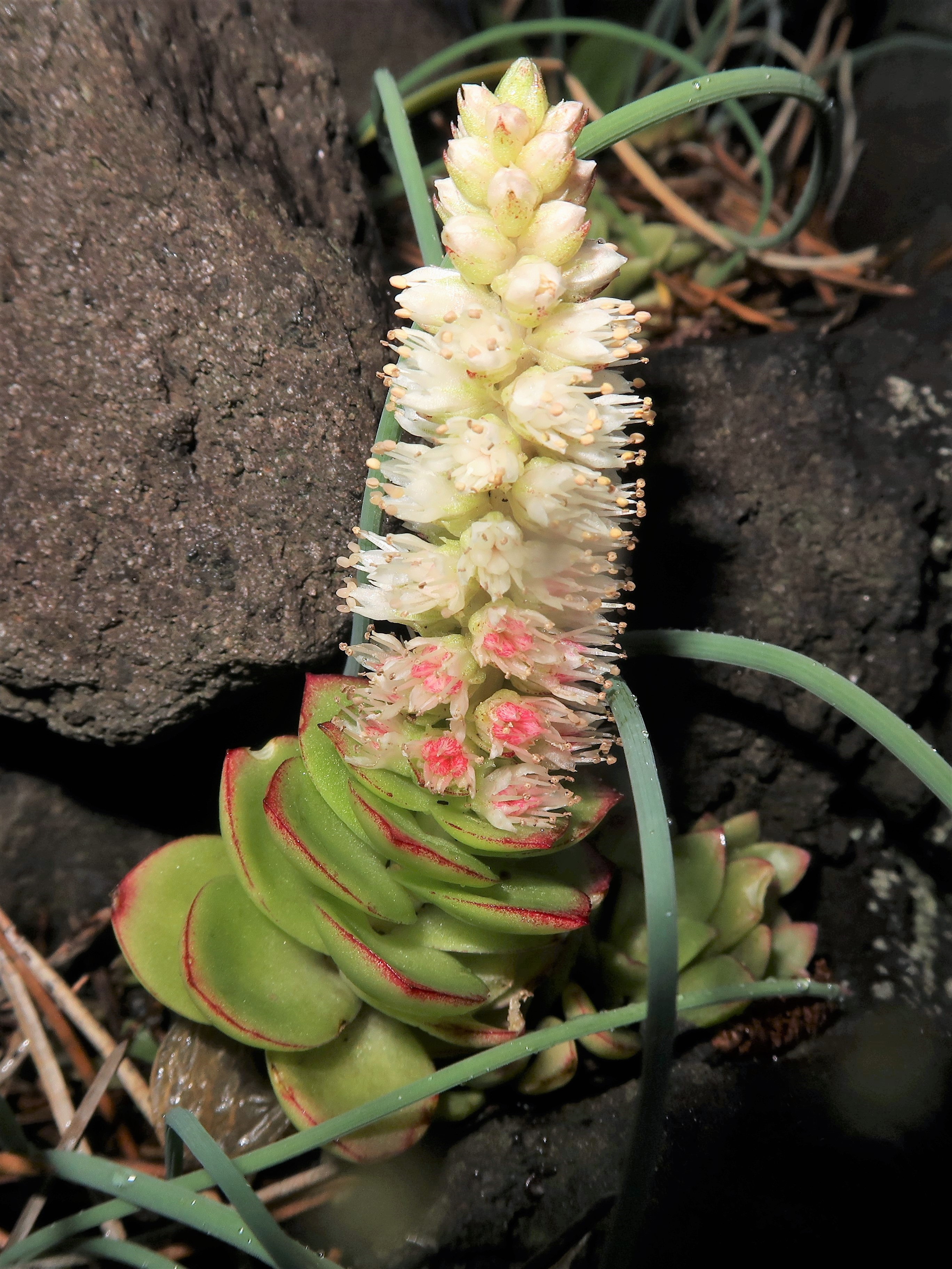 Orostachys malacophylla var. aggregeata, Shimokita peninsula, Aomori pref., Japan